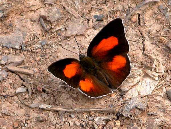 Bright Sunbeam Curetis bulis i Jairampur, Arunachal Pradesh, India